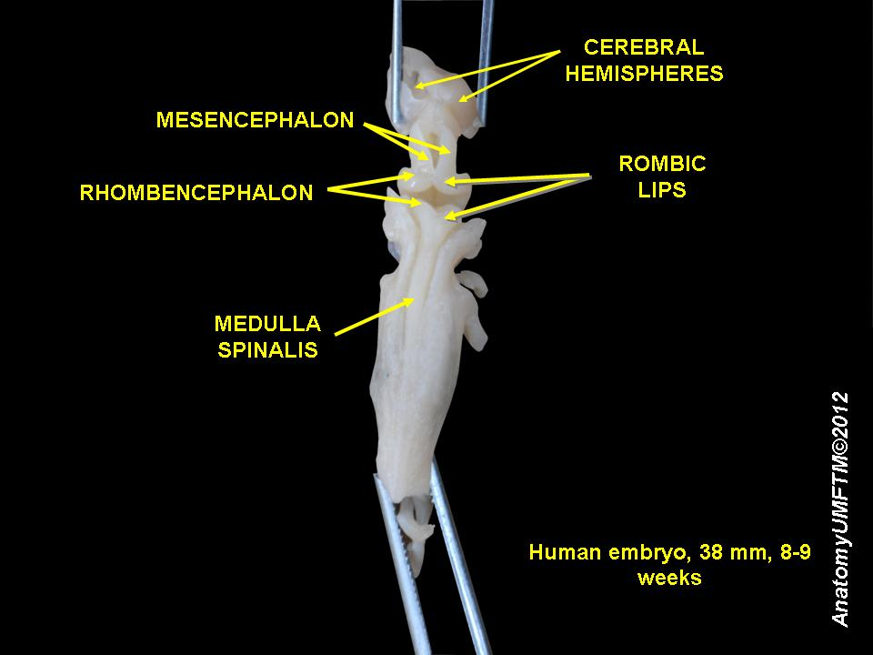 Dissection